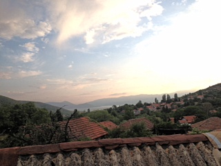 View of the village of Brajčino in Resen Municipality, Macedonia.